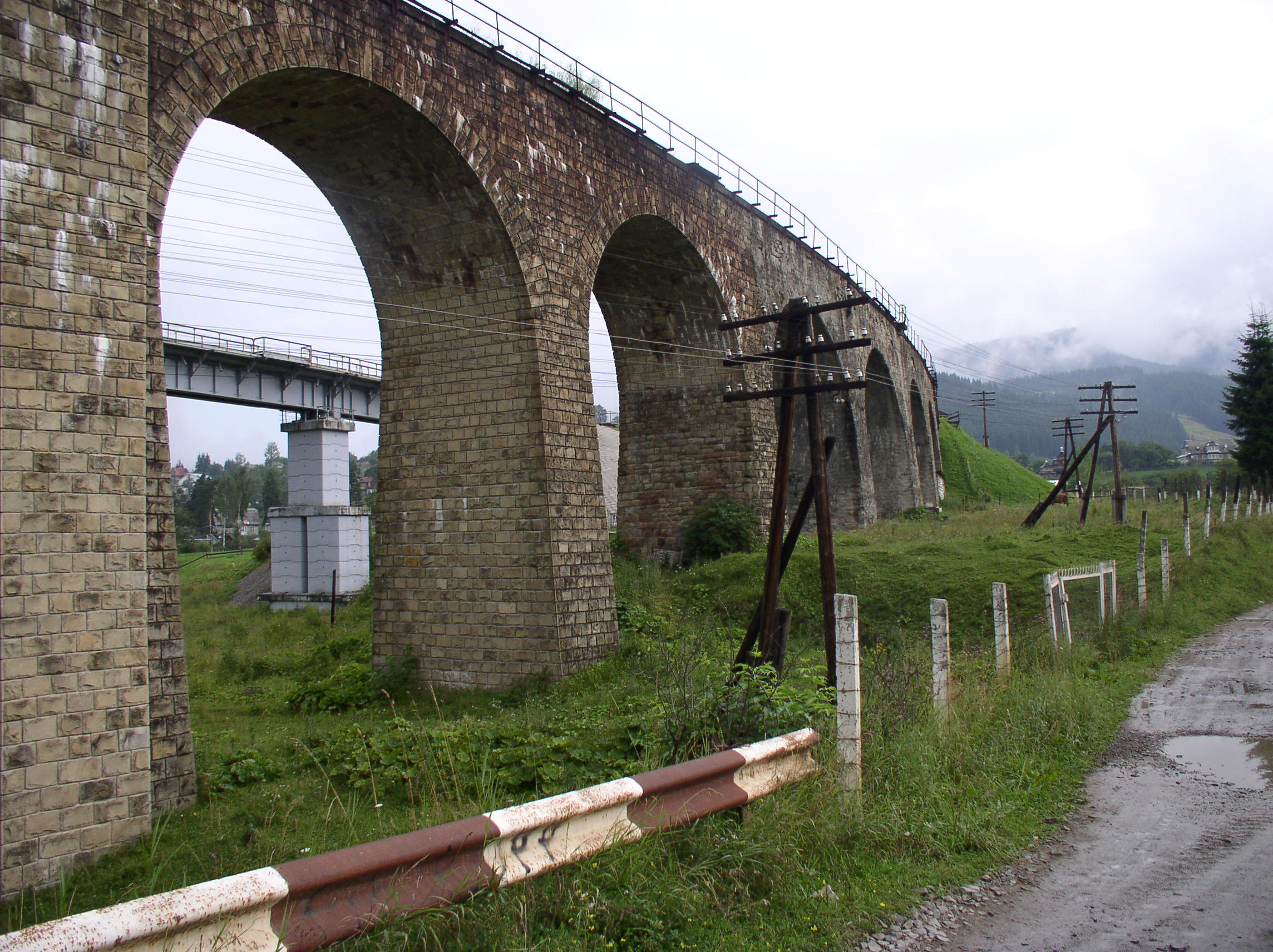 Viaduct. Vorokhta, Ukraine.